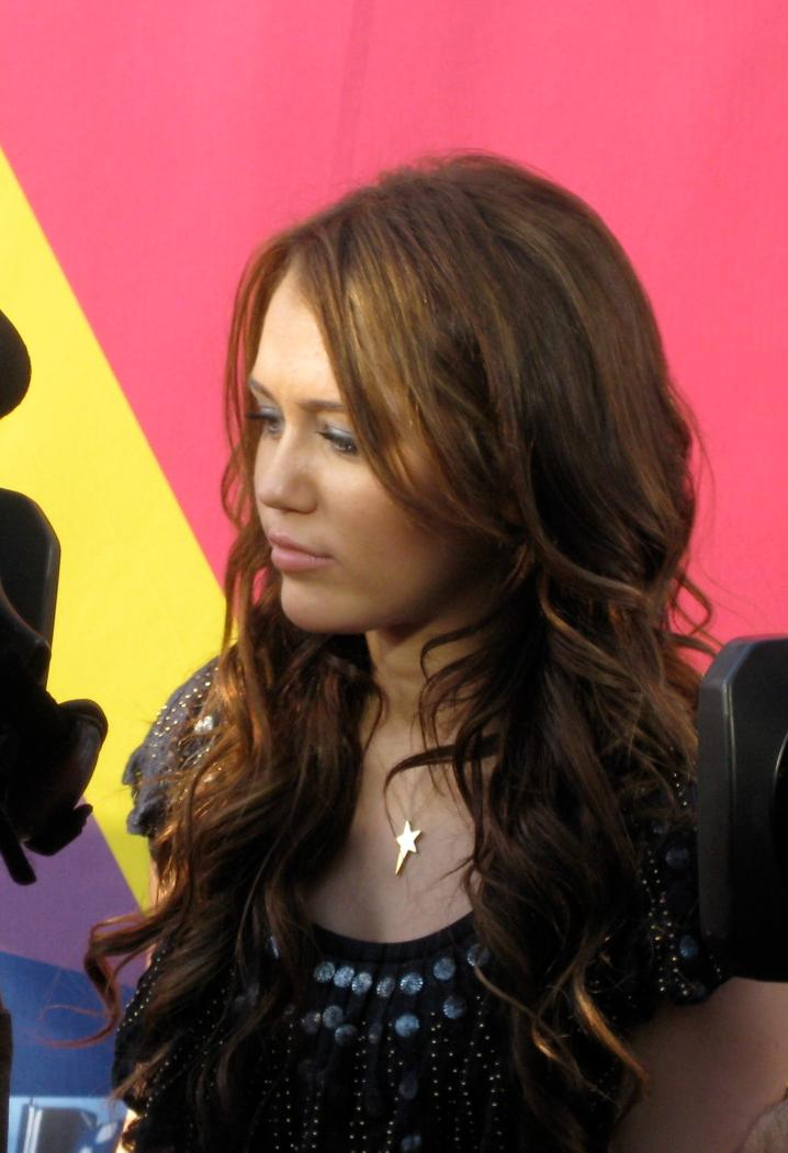 Miley Cyrus at the 2008 MTV Video Music Awards.